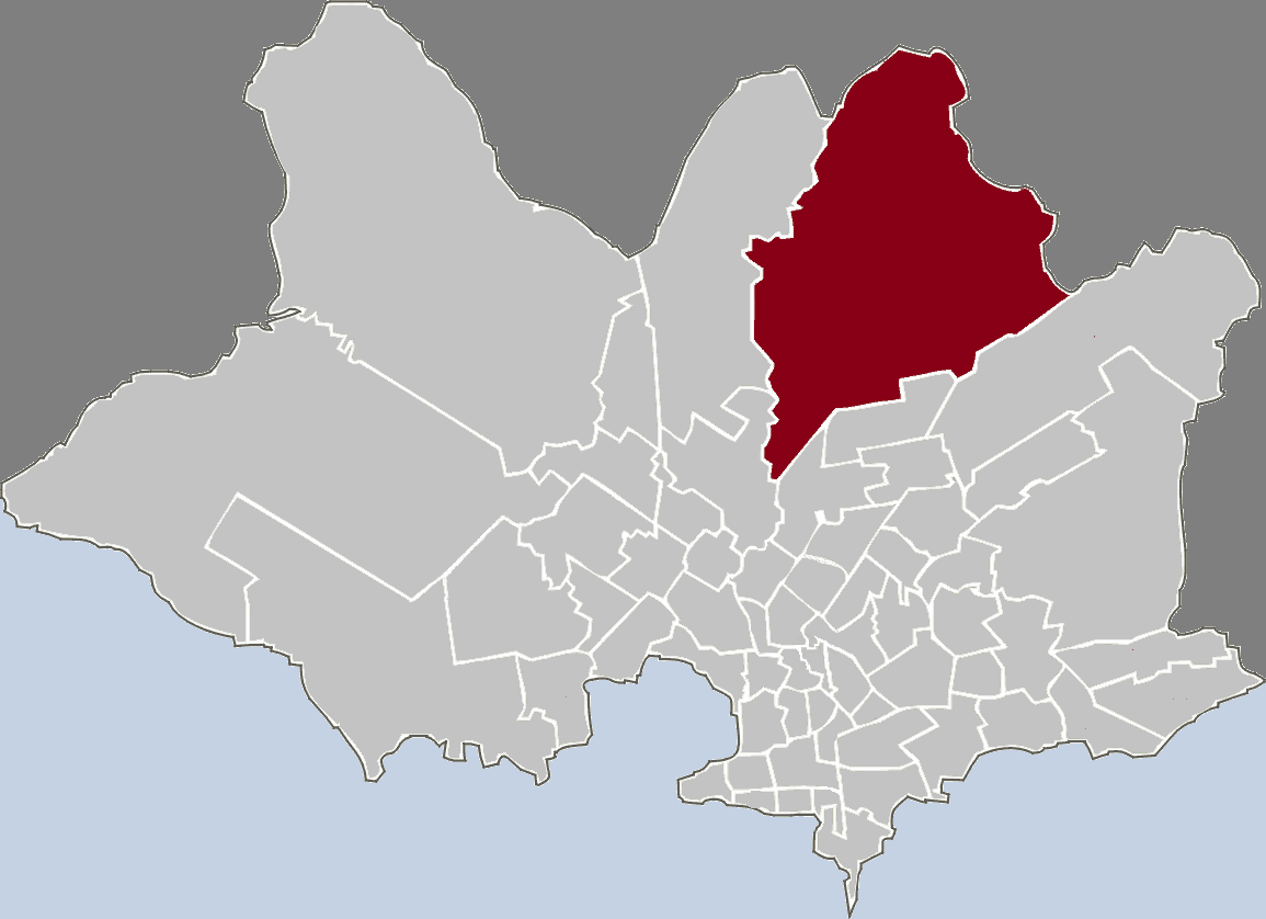 Map highlighting the given barrio in Montevideo.